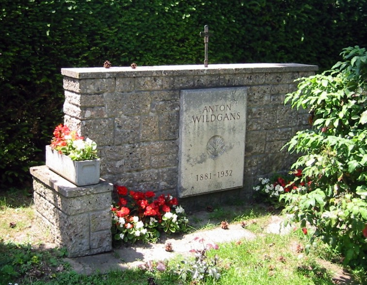 Description Wiener Zentralfriedhof, Ehrengrab von Anton Wildgans Source own work Date 16.06.2006 Author Invisigoth67 Permission Creative Commons Attribution ShareAlike 2.5 License